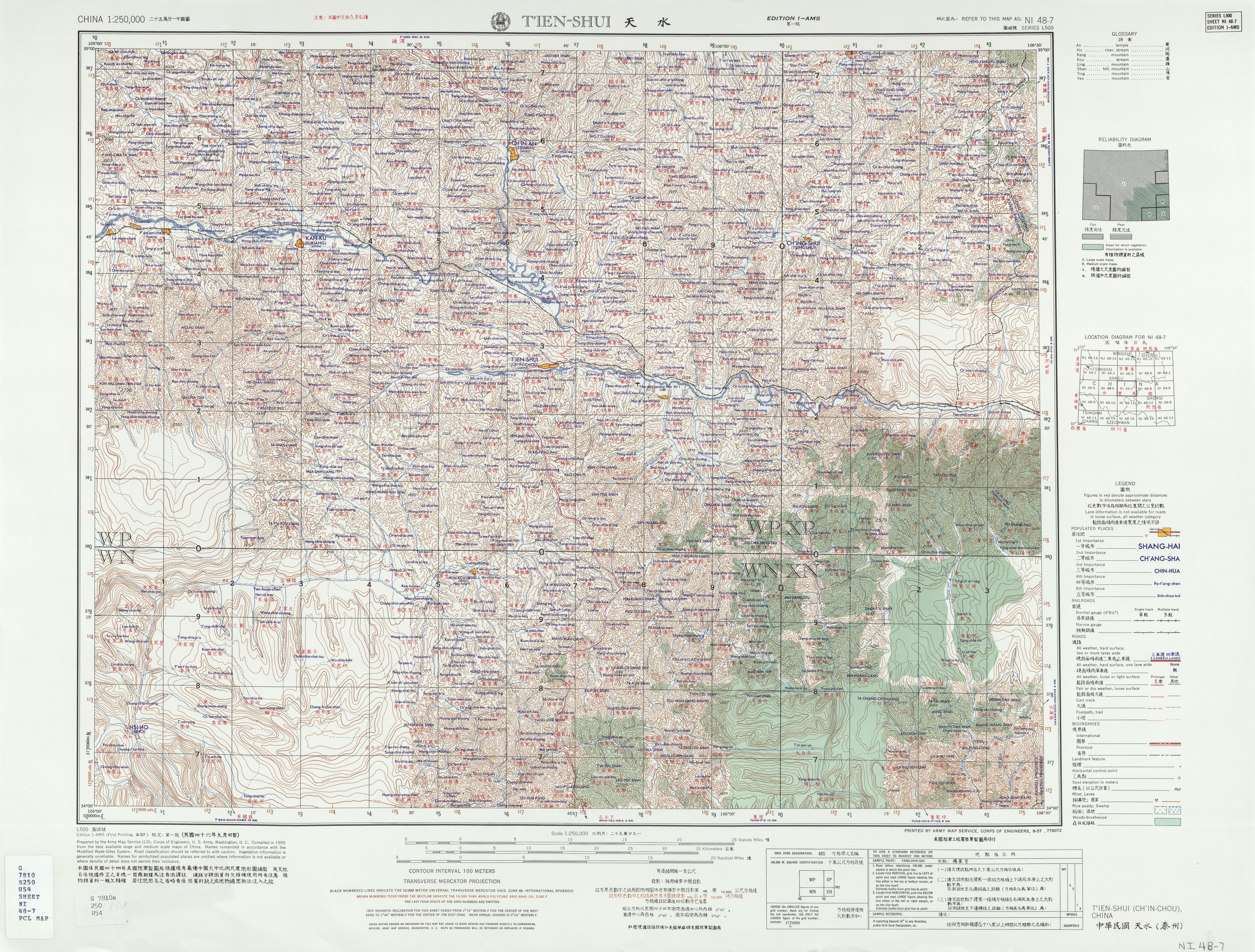 China AMS Topographic Maps